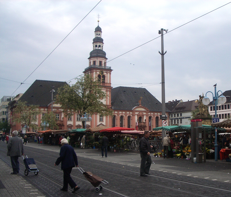 Mannheim, Germany: Marktplatz with old town hall and Untere Pfarrkirche church